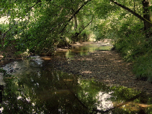 The Jugnon river near Viriat